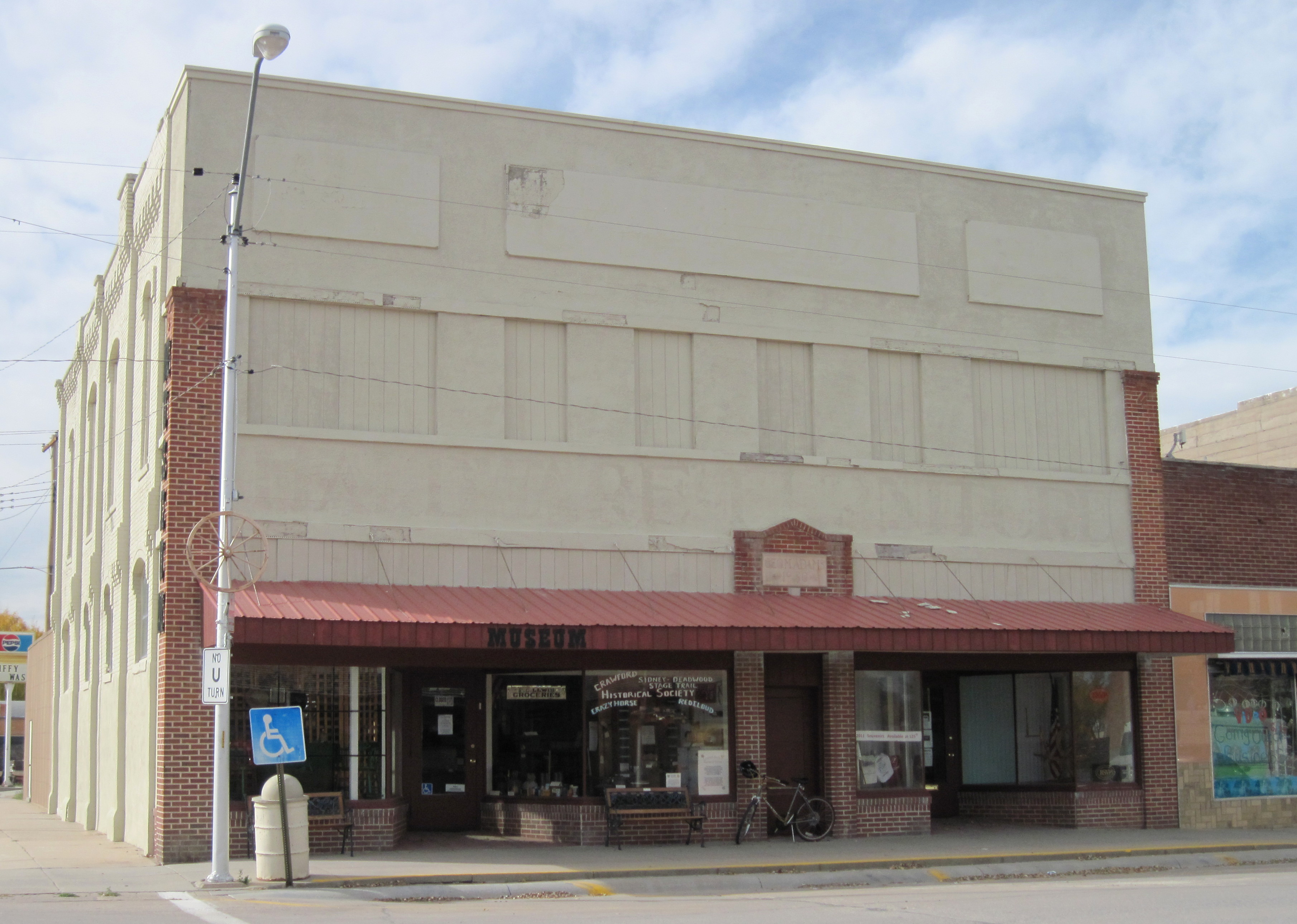 Exterior of the Adams Block in downtown Crawford, Nebraska. The edifice was built in 1887, making it the oldest brick structure and one of the oldest buildings in the city. The structure occupies two lots on the northwest corner of Second & Elm Streets. It was refronted in 1930, hence the problematic stucco. The brick on the side of the building is original, however. The south (left) side of the building housed a hardware store for about 90 years and the north side housed a general merchandise establishment before becoming a furniture store. The upper story was used for offices and "gentlemen's entertainment". However, the upstairs was never updated for electricity or running water and was later used for storing the furniture store's surplus goods. The structure was purchased by the Crawford Cultural Center group in the 1970s. The north (right) side of the building was occupied by Crawford RSVP (which still uses the space, as of 2012), and the south side was used as the senior center before being utilized in 1991 as the Crawford Historical Museum (also still active), run by the Crawford Historical Society. Although the lower story has been kept up fairly well, the upstairs has fallen into a state of dilapidation due to neglect; however, the windows and access door have been closed up to prevent further damage. The additions on the rear of the building, constructed probably about 1910, are used for storage. Surprisingly, the structure does not have a basement. The Adams Block is now owned by the city, which is housed across the street behind the bank. Both organizations currently occupying the building remain active.